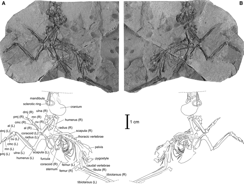 Resoviaornis jamrozi, holotype, specimen MSMD Av WR-9a + b from Wola Rafałowska, Poland, early Oligocene (top) and interpretative drawings (bottom). a Main slab; b counterslab. Left (L) and right (R) elements are indicated. Abbreviations: al phalanx digiti alulae, cmc carpometacarpus, cu os carpi ulnare, dmj phalanx distalis digiti majoris, mn phalanx digiti minoris, pmj phalanx proximalis digiti majoris.